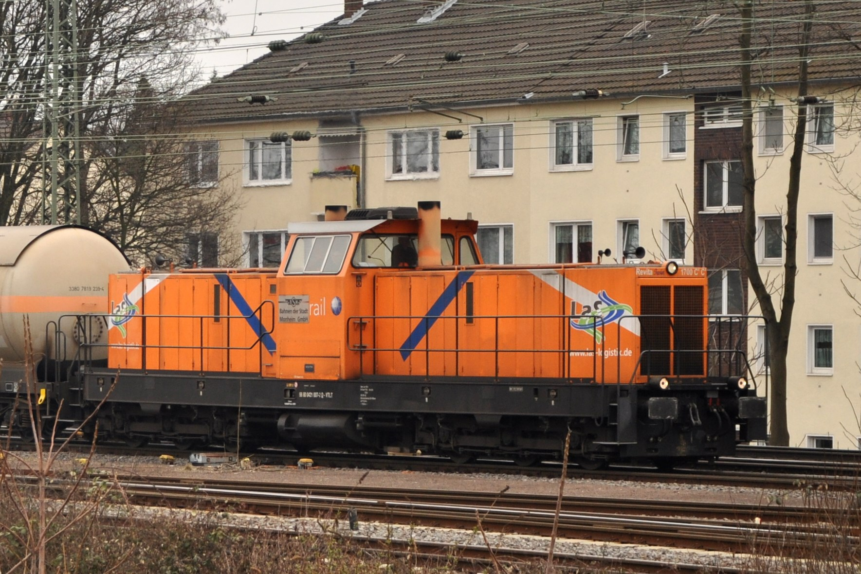 Voith Revita Twin 1700 CC locomotive owned by Northrail and hired to the "Bahnen der Stadt Monheim" at Cologne-Mülheim in April 2013.